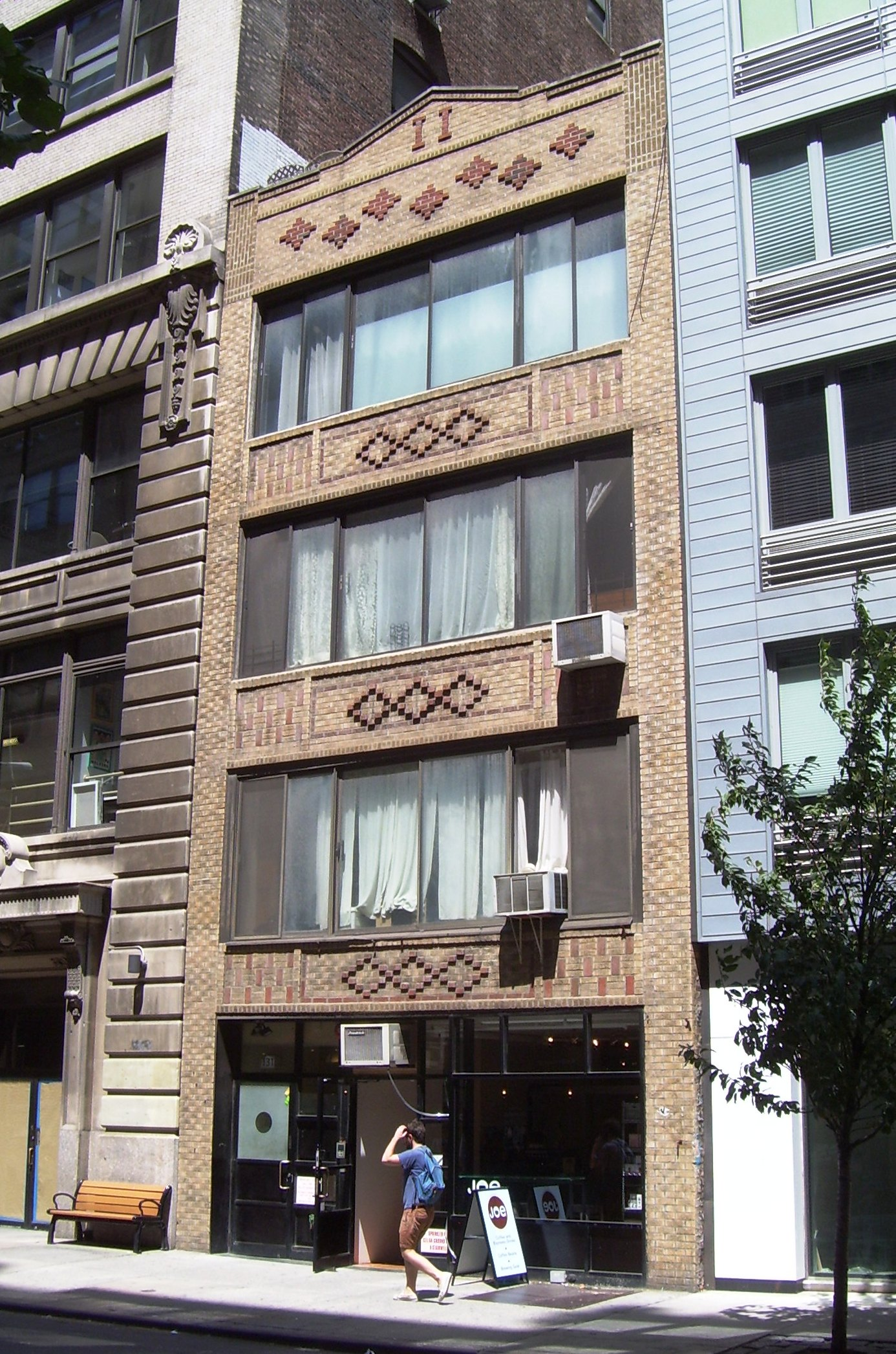 131 West 21st Street between Sixth and Seventh Avenues in the Chelsea neighborhood of Manhattan, New York City, was built in 1925. (Sources: [1])